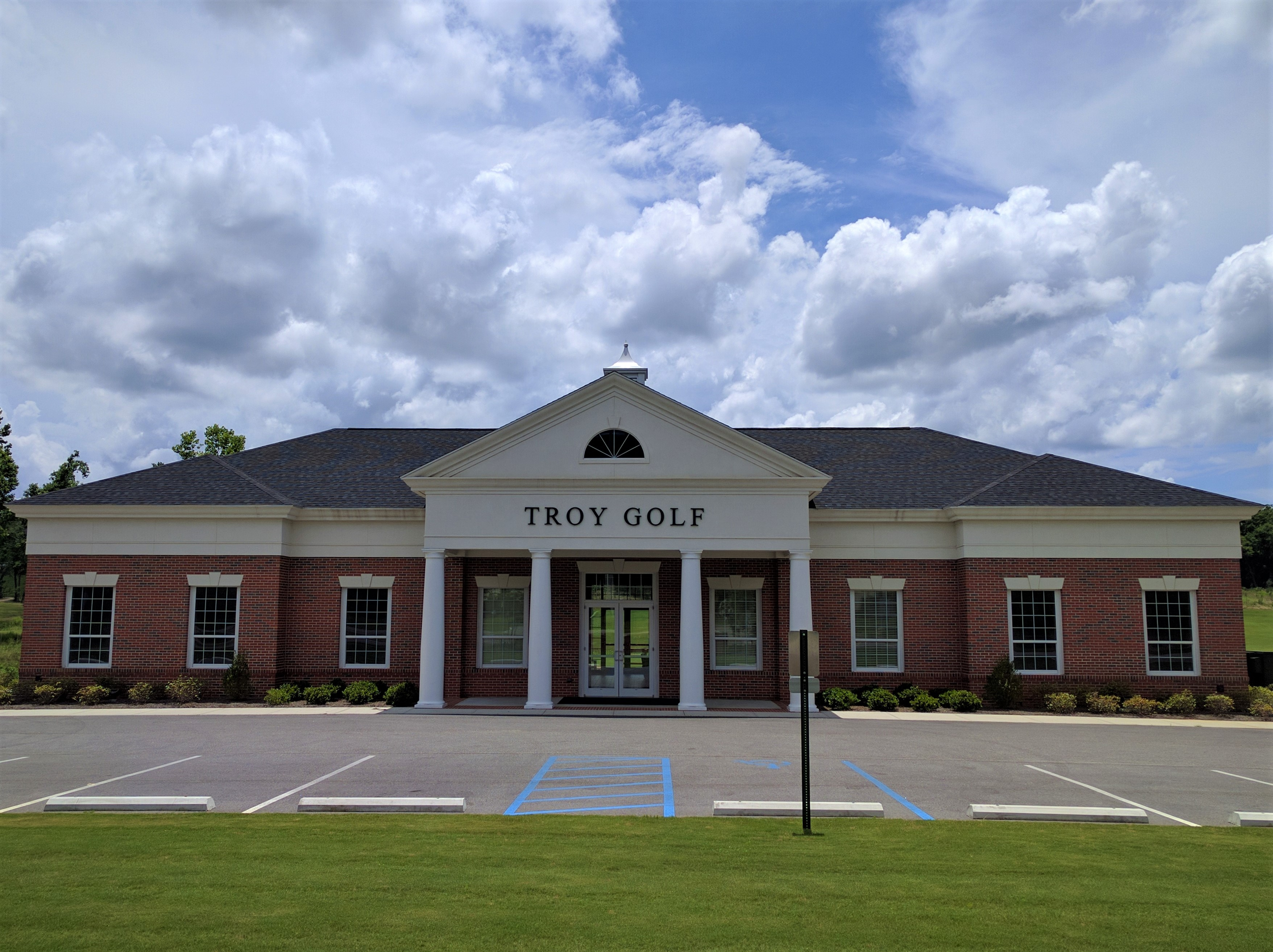 Front view of the Troy Golf facility.